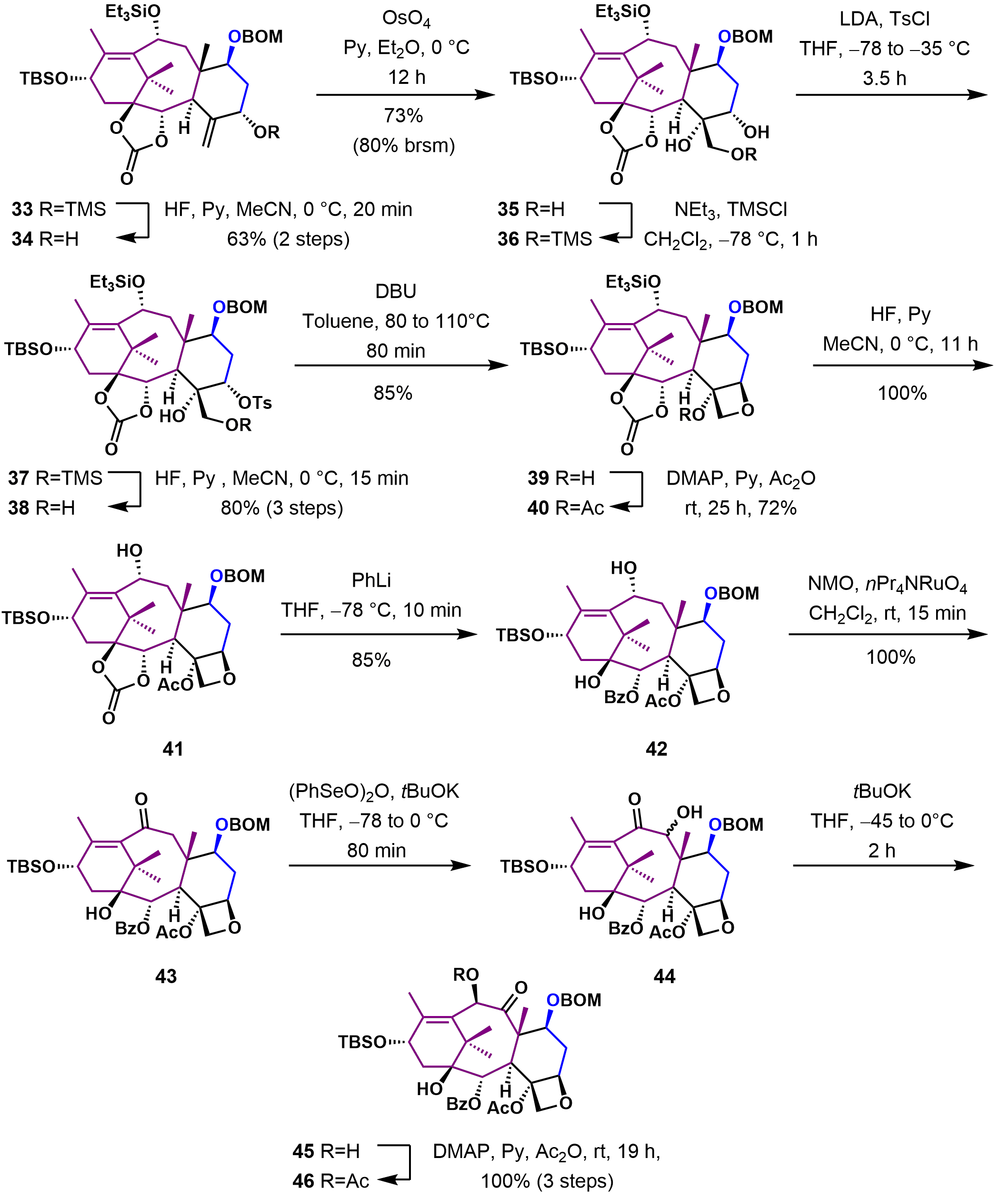 Synthesis of the D ring system.